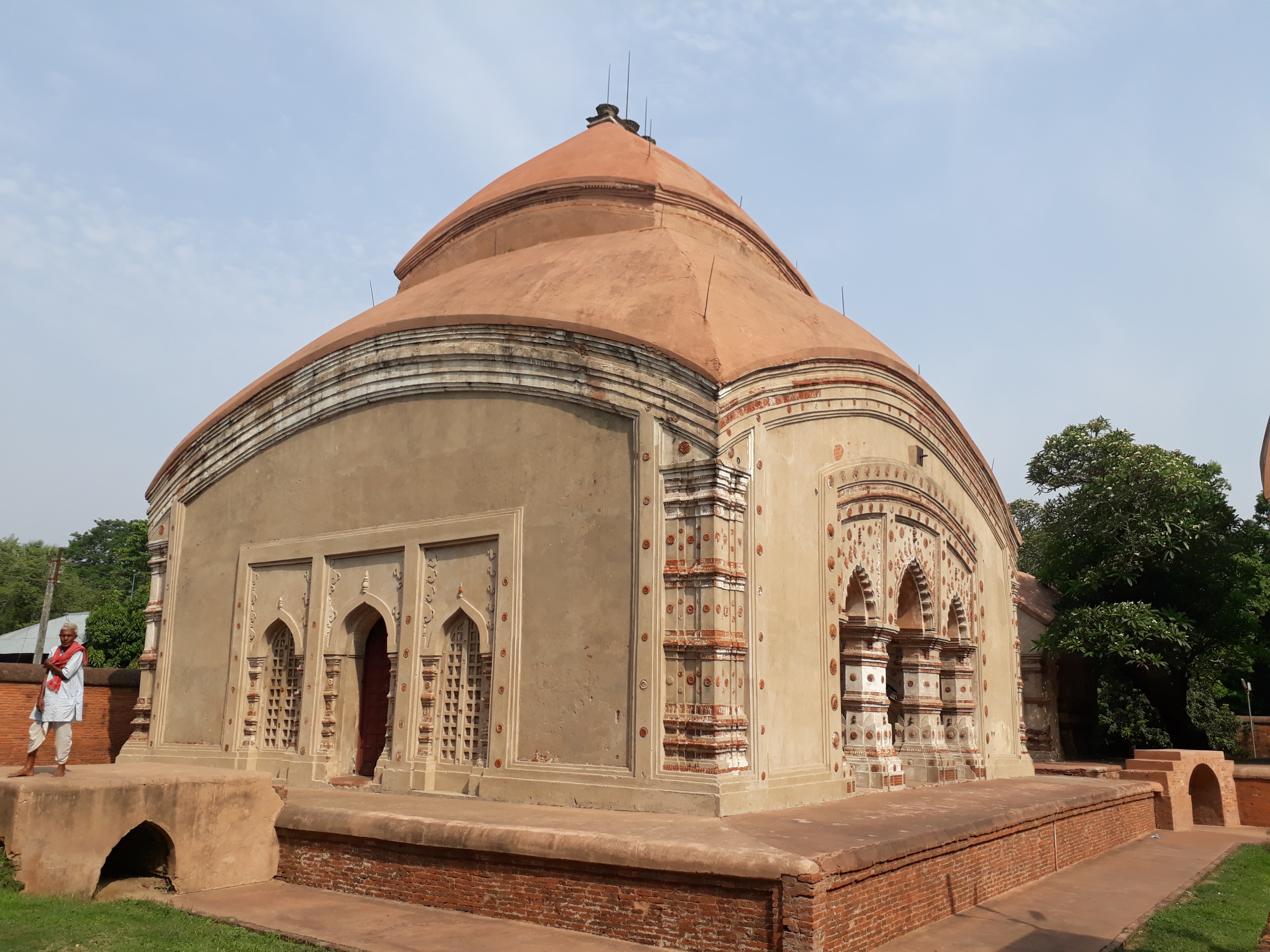 Krishnachandra Temple, Guptipara, Hooghly, West Bengal